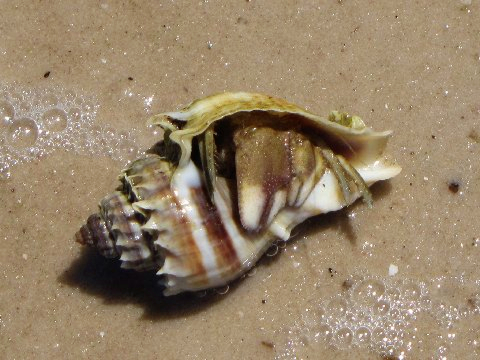 The shell of Melongena corona with a hermit crab inside.